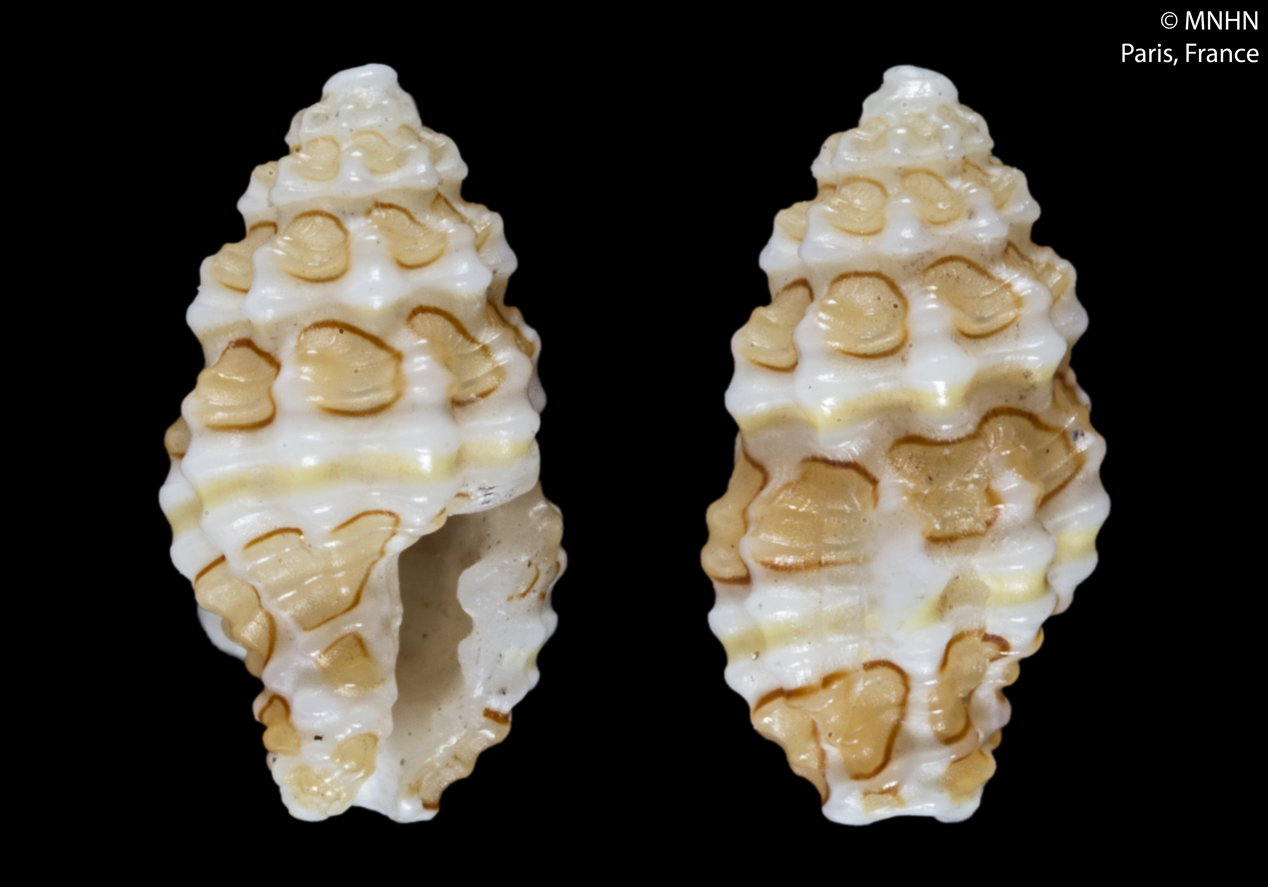 PRESERVED_SPECIMEN; Lienardia ocellata Jousseaume, 1883; Type status: HOLOTYPE; Identified by: N/A; Individual count: 1; Event date: N/A